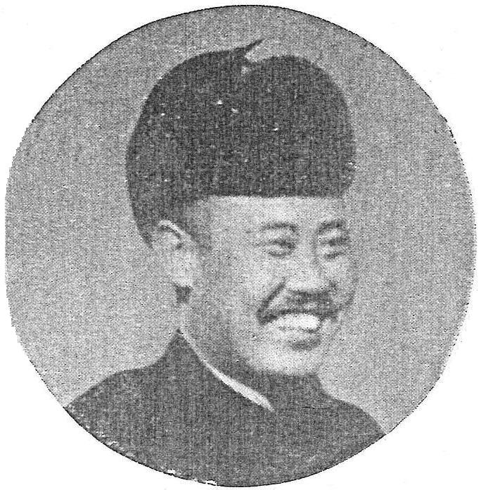 Fu Zuoyi